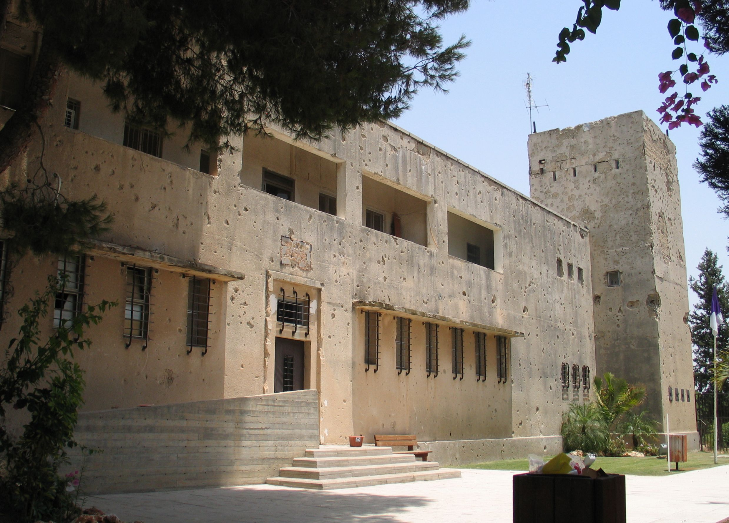 Metsudat Yoav, Israel.